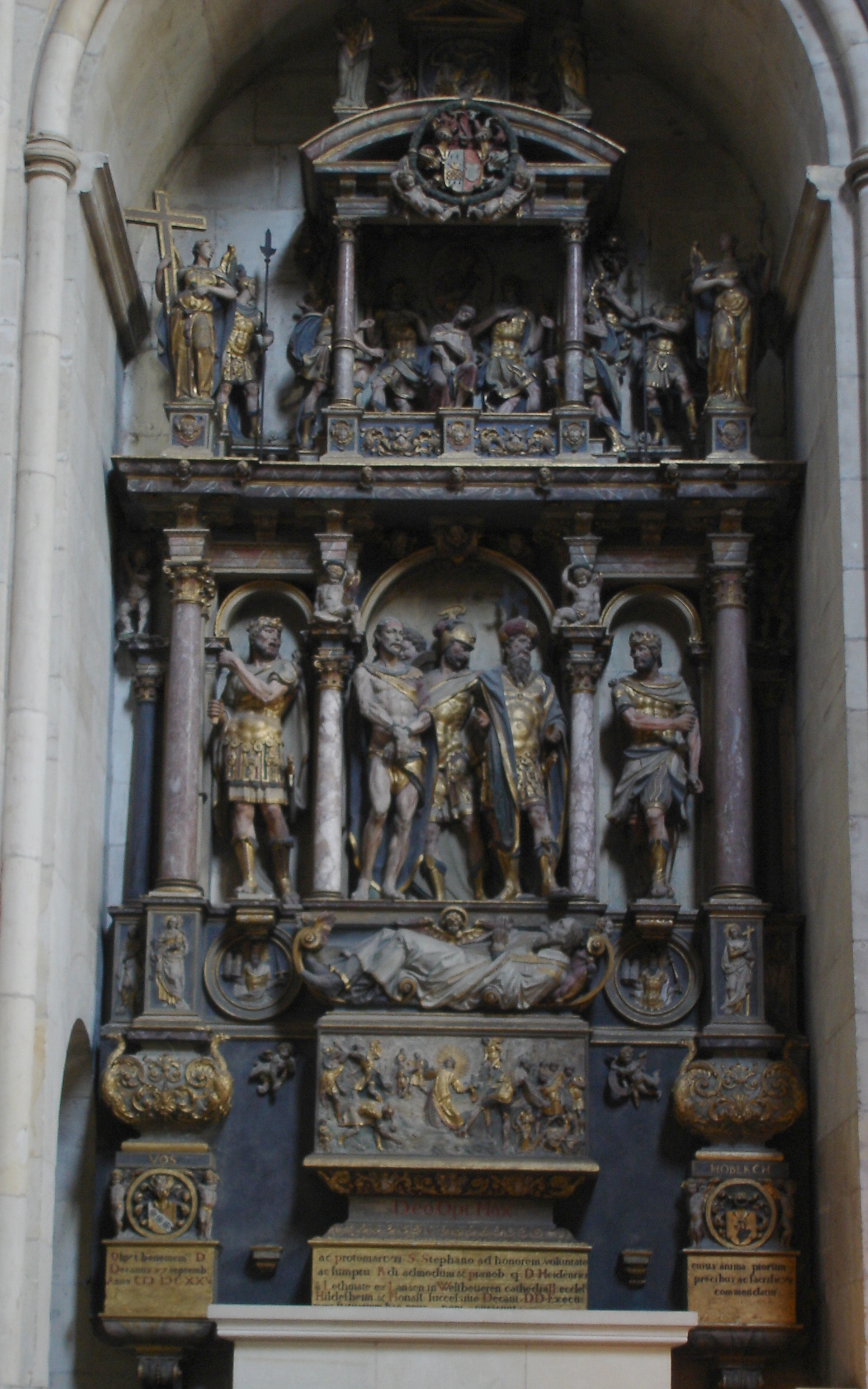 Altar of Stephanus in the St.-Pauls-Cathedral in Münster, Westphalia, Germany